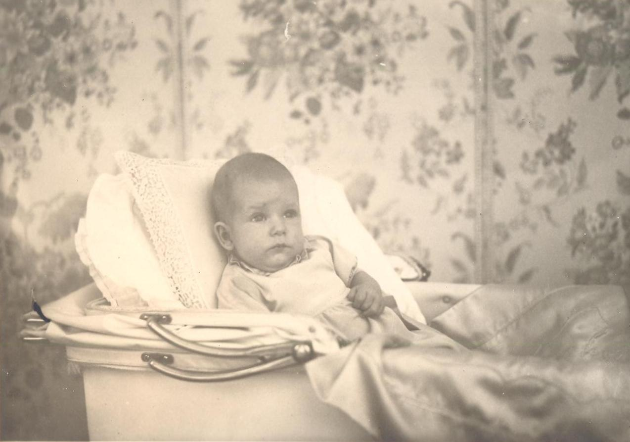 Simeon-The Prince of Turnovo